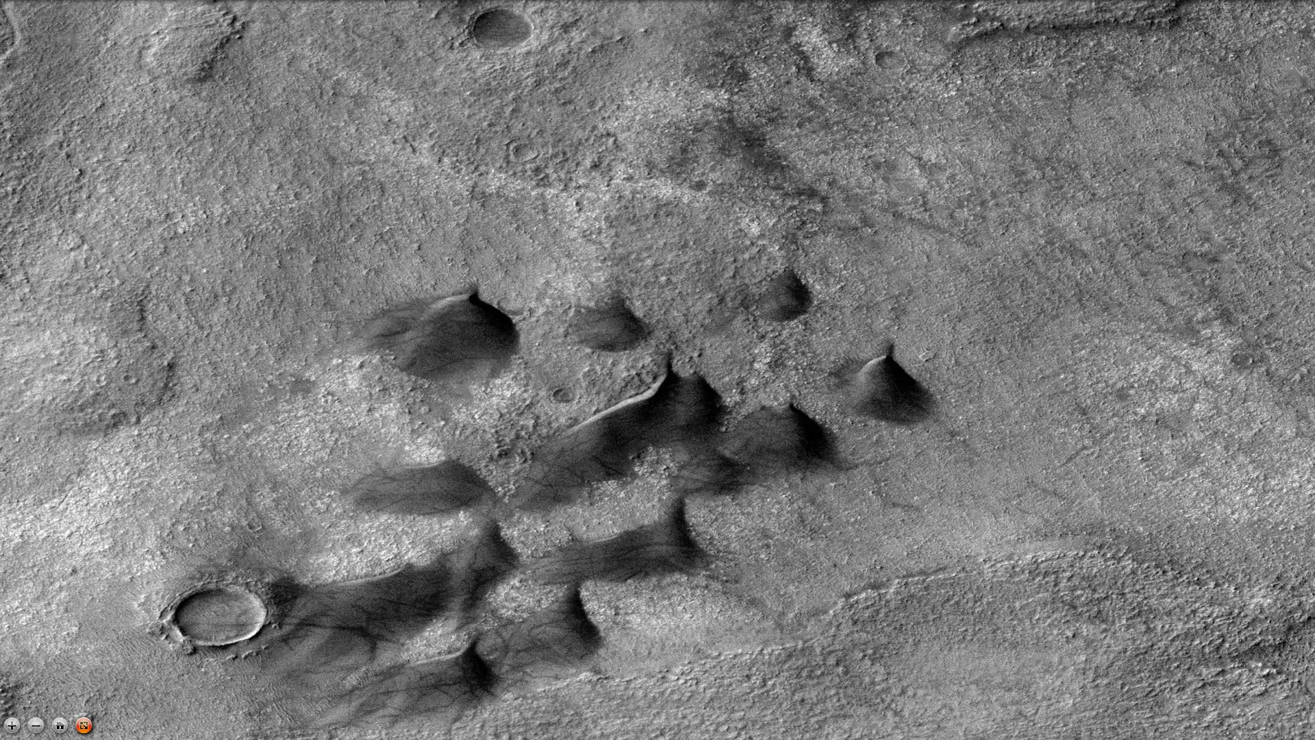 Huggins Crater showing dunes on floor, as seen by ctx